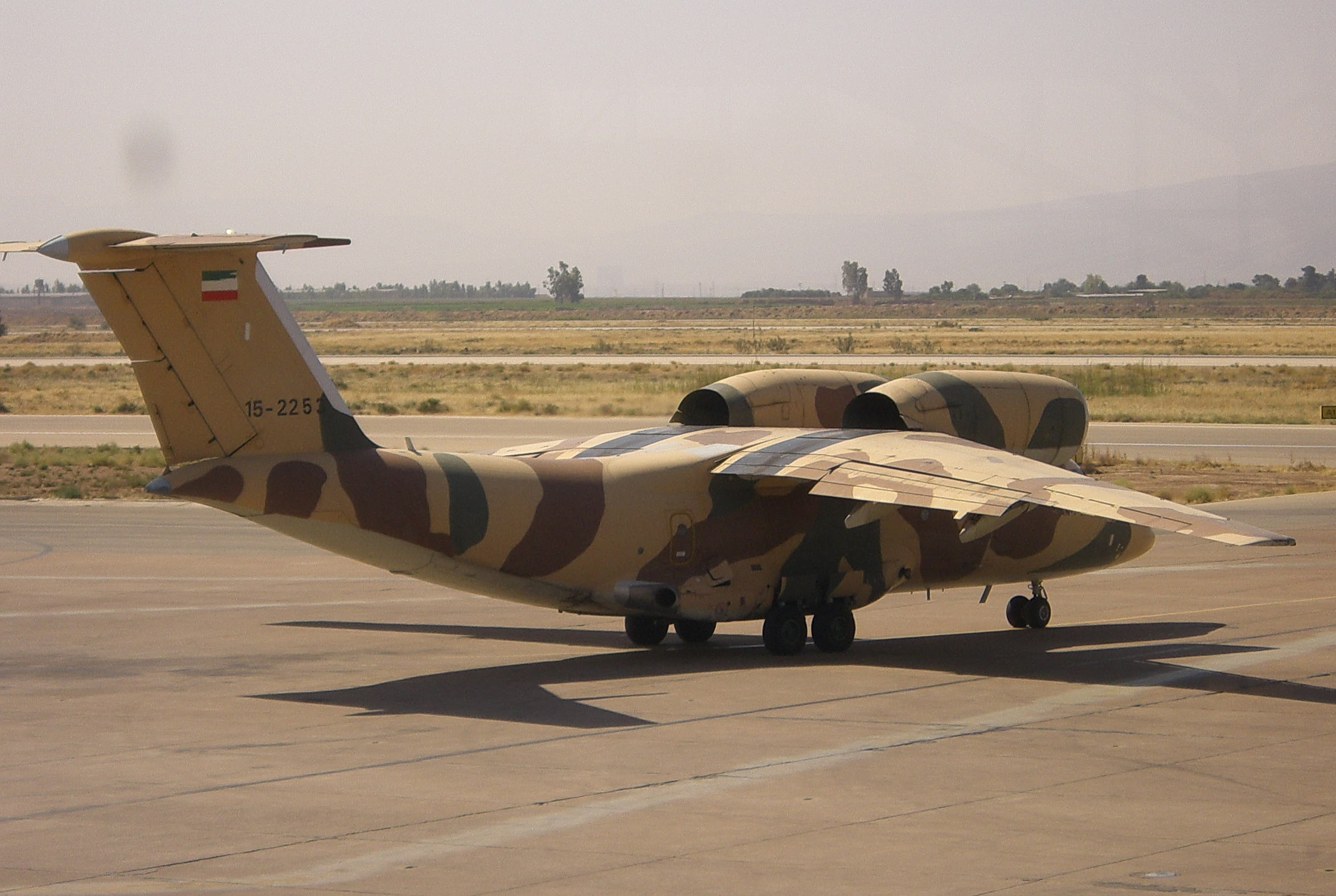 An-74T Iran AirForce at Shiraz International Airport on September 22nd, 2007.